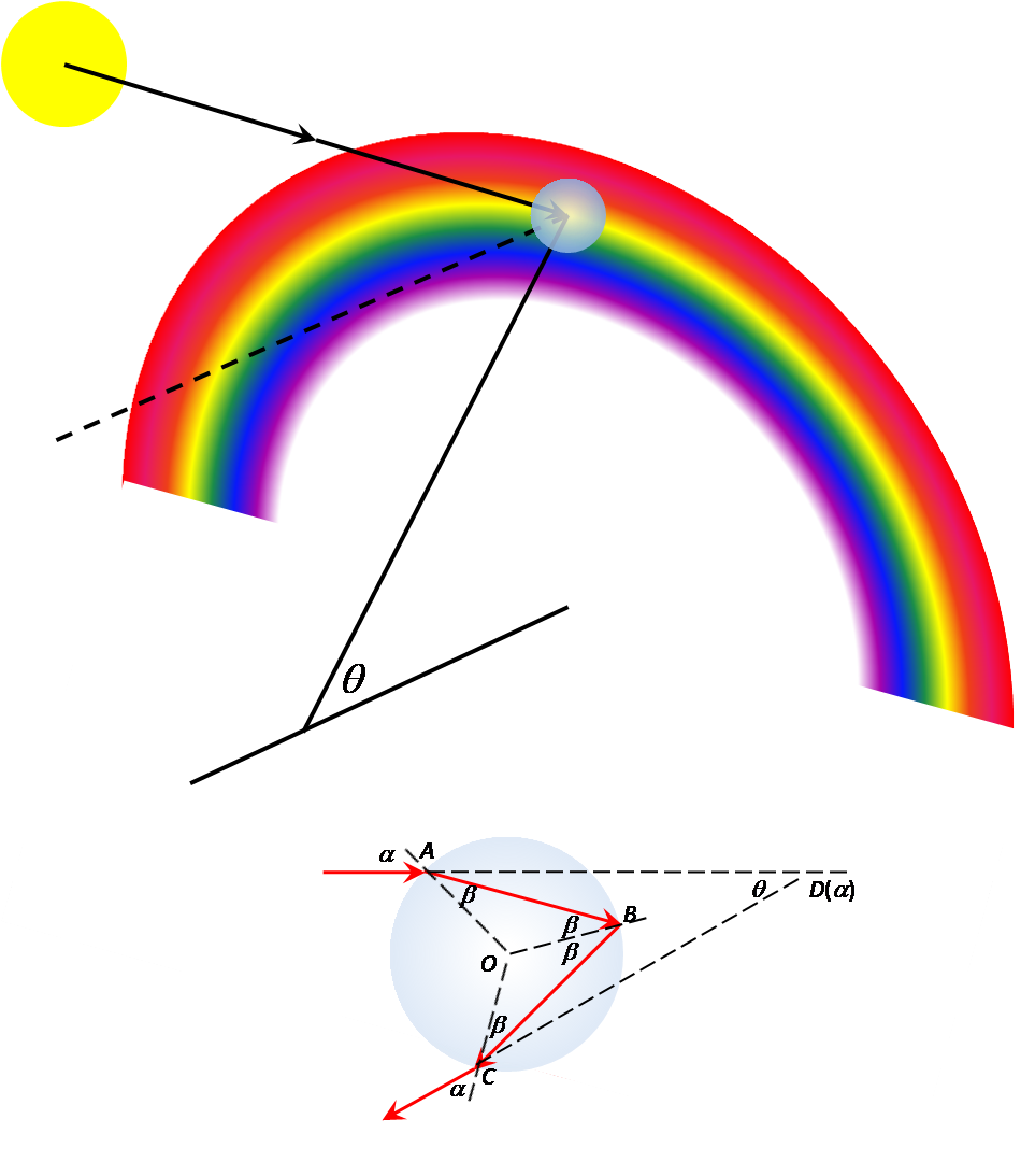 Explanation of Rainbow.